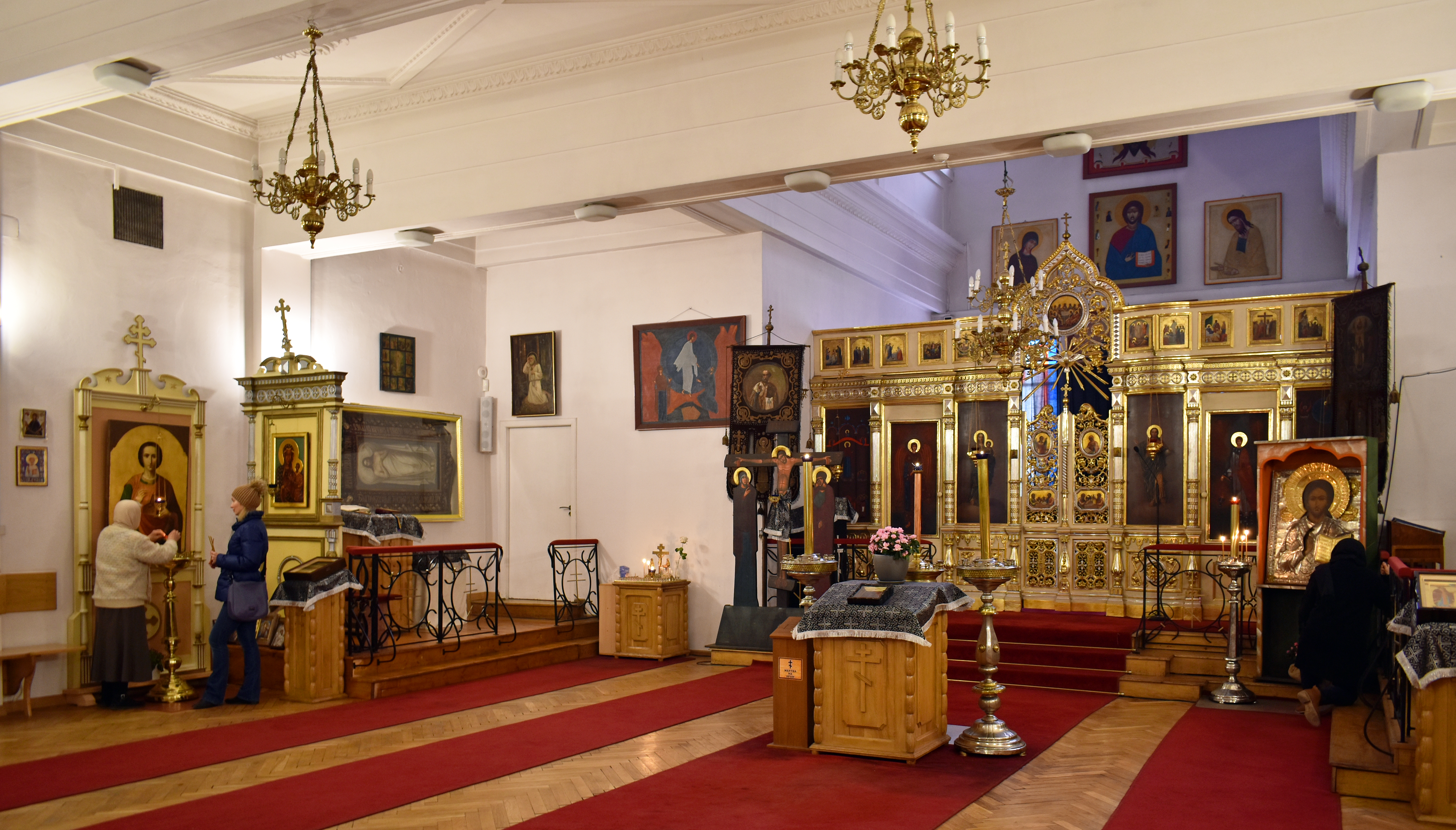 Orthodox Church of the Assumption of St. Mary (interior), 24 Szpitalna street, Old Town, Krakow, Poland